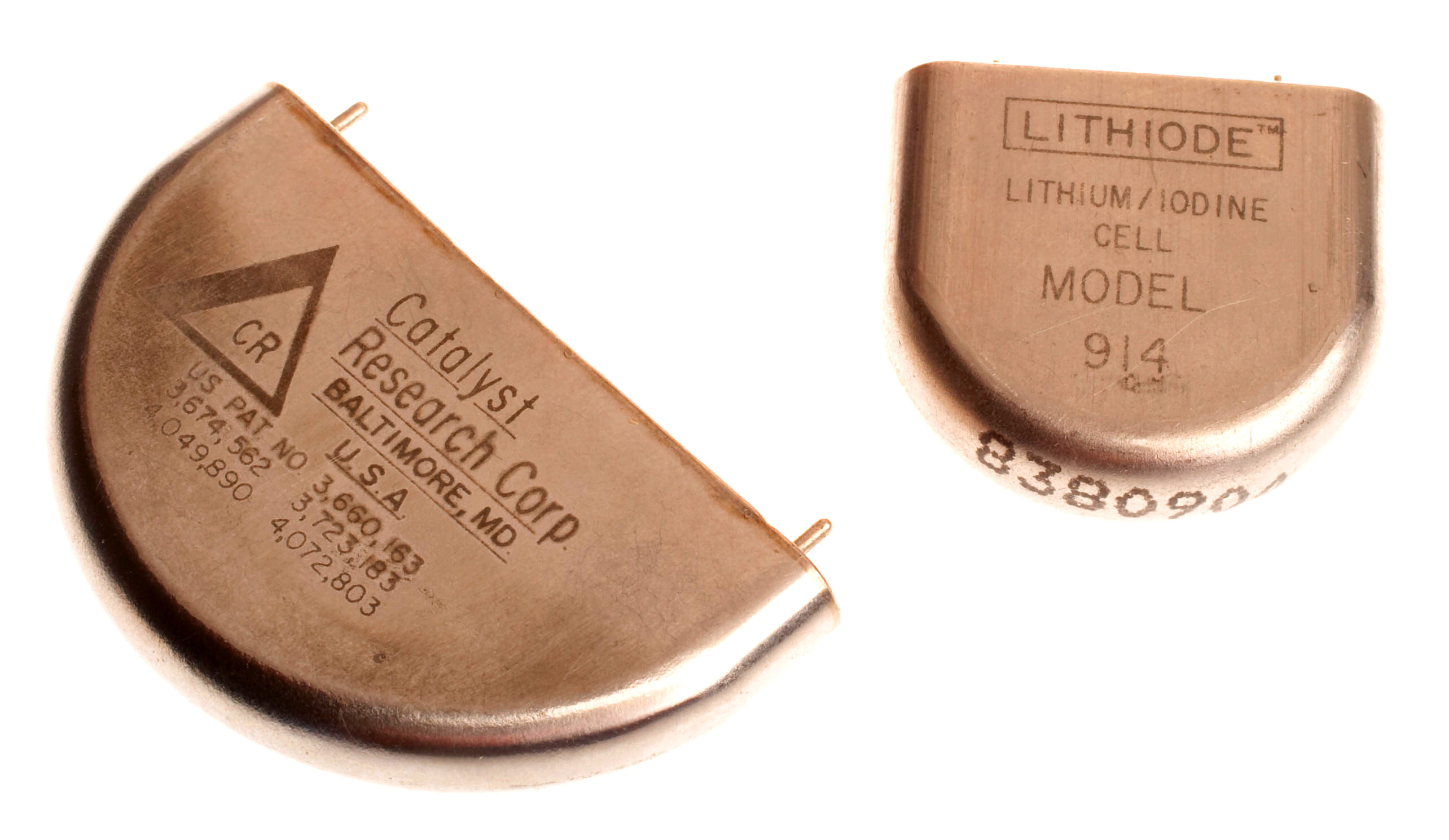 The Central Intelligence Agency often develops technology and conducts research that not only advances its mission but, when declassified, can have significant impact on the world. In the 1970s, the CIA shared research it had done on lithium-iodine batteries with the medical community. This same technology is used in heart pacemakers today. For more information on CIA history and this artifact please visit